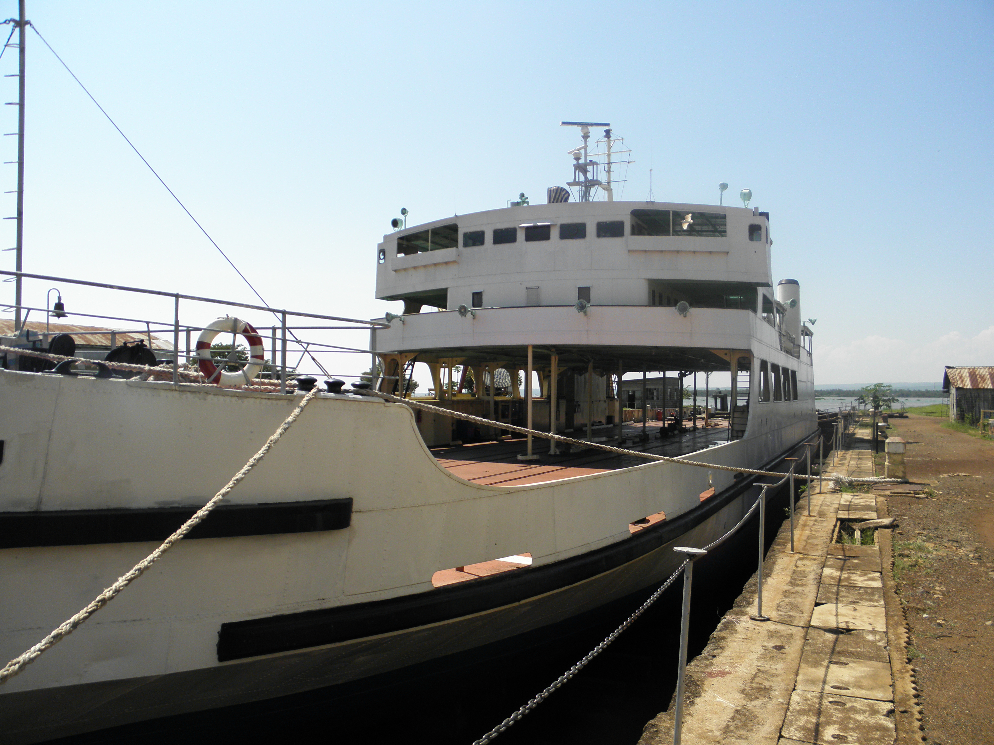 MV Uhuru